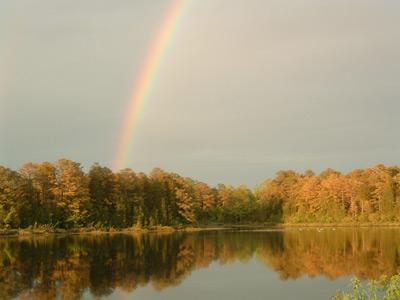 A rainbow over Cumberland Pond in Maurice River Township, New Jersey.